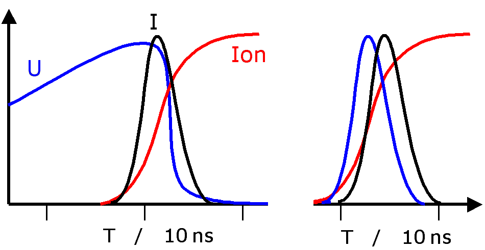 electrical network of a TEA Laser like N2 Laser. Used in the english article bezier curves